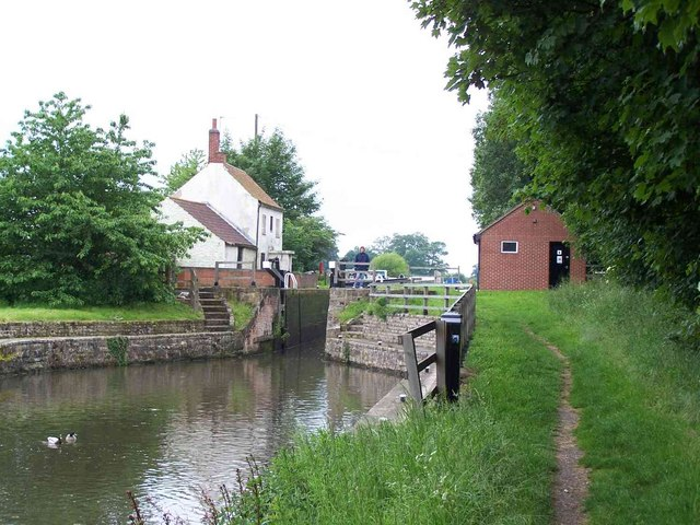 Lock 55, Forest Locks